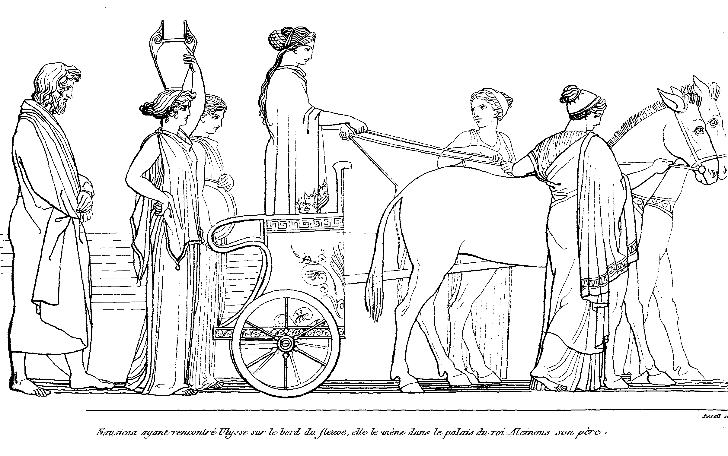 Illustrations of Odyssey